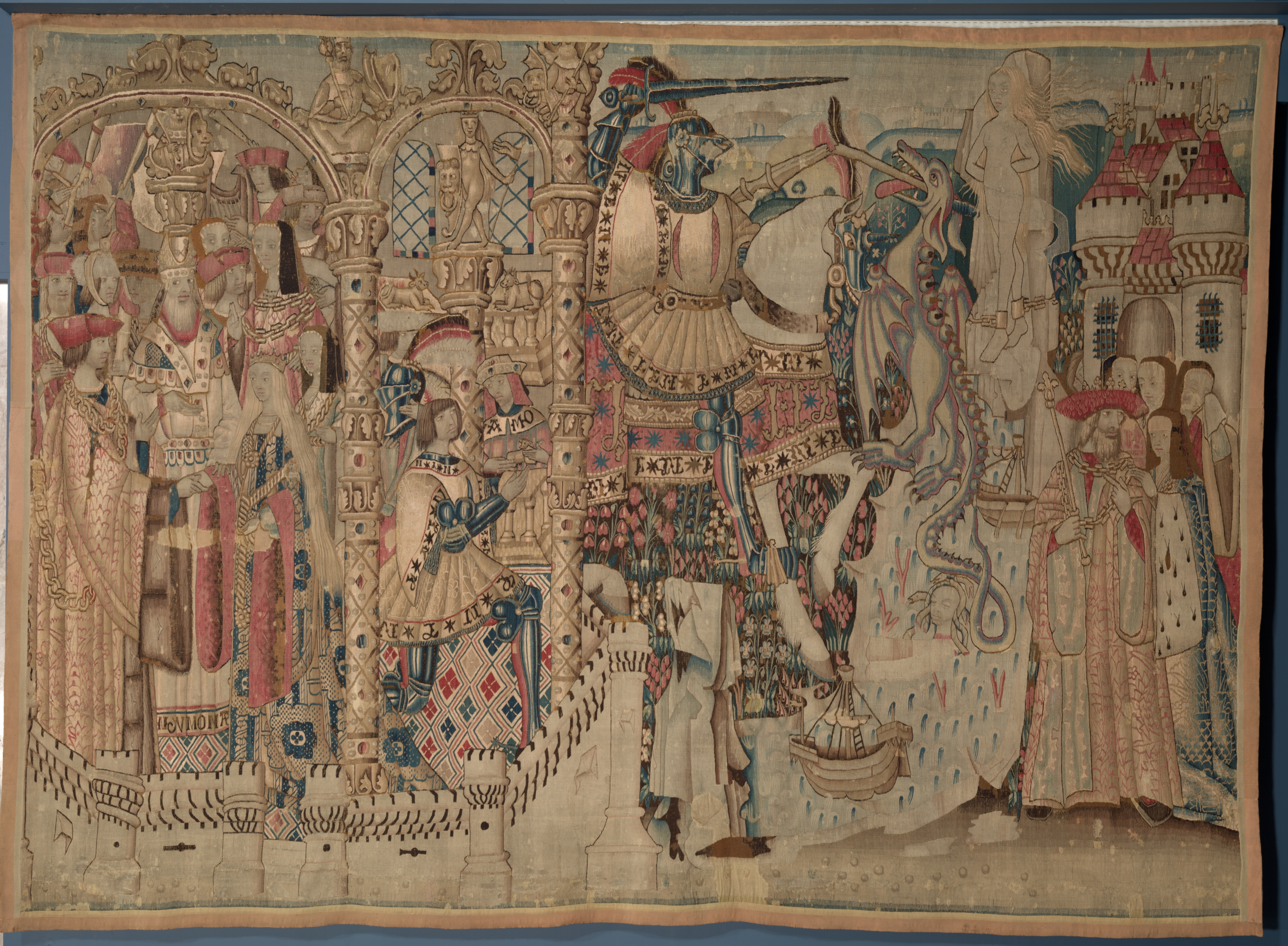 Tapestry (Netherlands, early 16th century) depicting the story of Perseus and Andromeda, based on Ovid's account while also borrowing imagery from contemporary depictions Saint George and the Dragon. The story is told from right to left: to appease the god Poseidon for her mother's insult to the Nereids, Andromeda is chained to a rock by the sea, awaiting her sacrifice to the sea monster Cetus, while her parents, King Cepheus and Queen Cassiopeia, stand by helplessly; an armored Perseus, astride Pegasus (a detail not in Ovid), kills the monster, while Medusa's severed head (a prize from Perseus' previous adventure) sits on the beach below, its blood causing the seaweed around it to turn into red coral; Perseus kneels in thanks to the gods for his triumph, with small horned images representing the calf, cow, and bull he is sacrificing to Mercury, Minerva, and Jove; Perseus and Andromeda are married. (Cleveland Museum of Art, 1927.487)